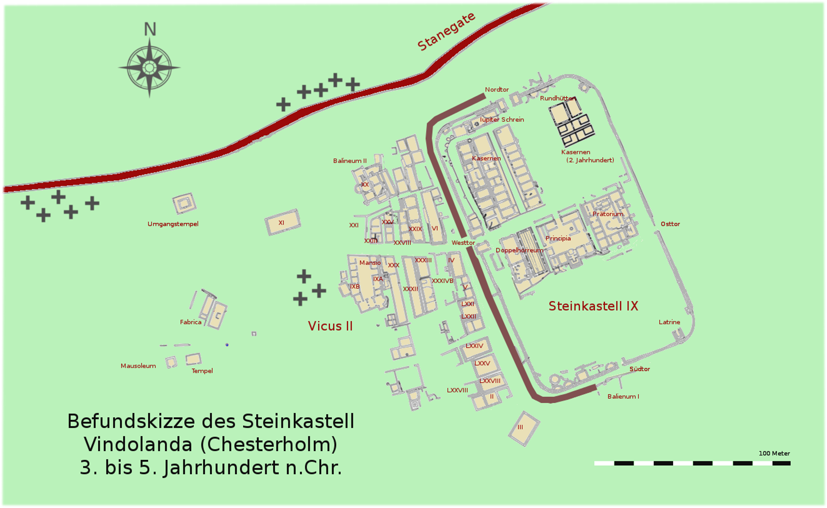 Grabungsskizze, 1930 - 1973, des Kastell Vindolanda (Chesterholm, GB).